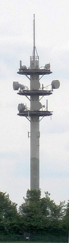 Telecommunications tower in Grosshau, Hürtgenwald, Germany